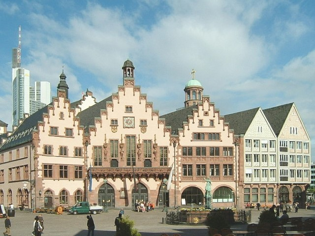 The Römer, the Frankfurts famous Mayors house Römer (Frankfurt)